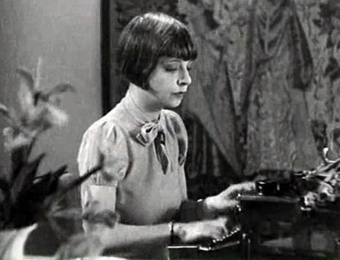 Viña Delmar in Sadie McKee - trailer (cropped screenshot)